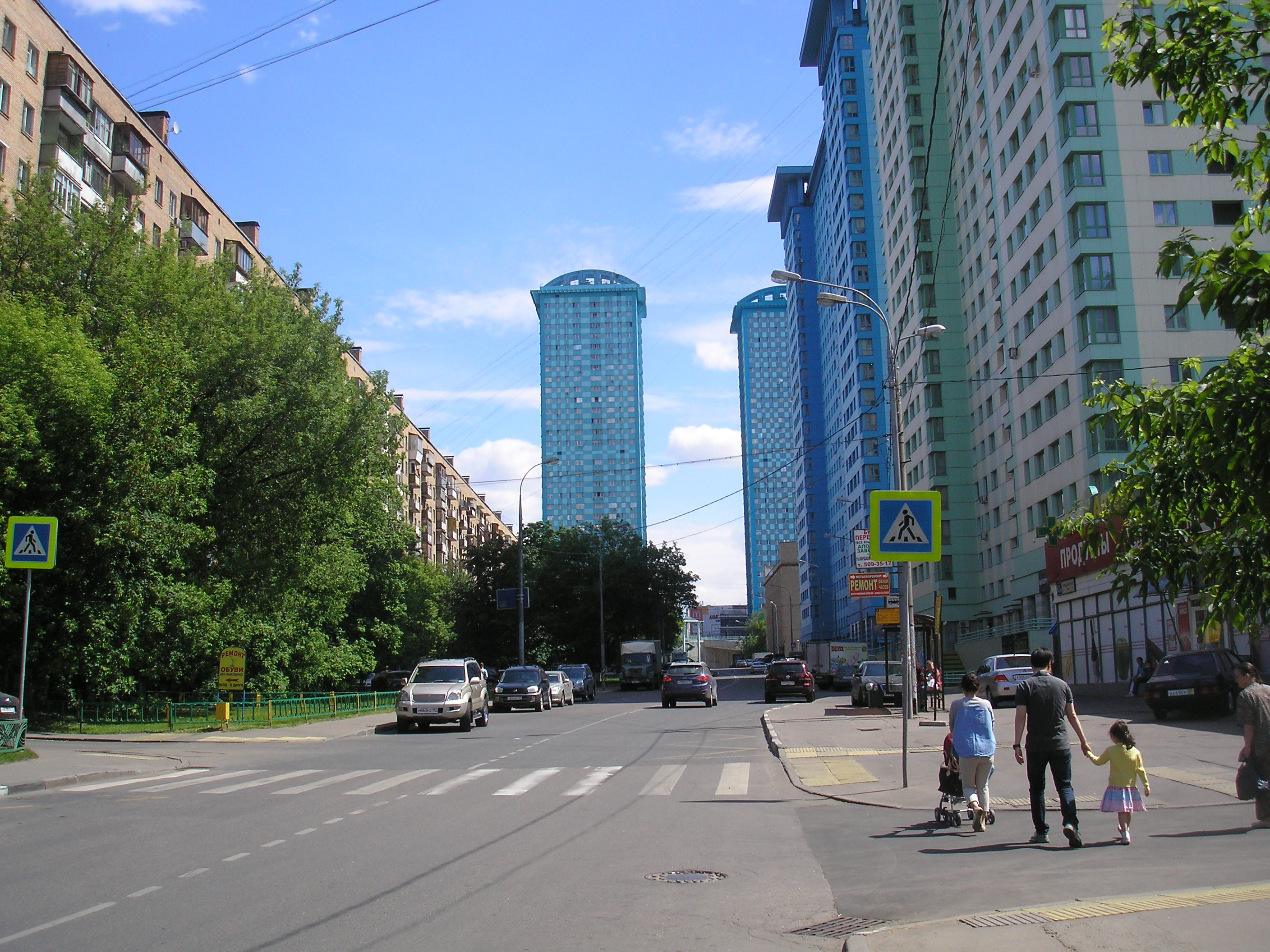 Moscow. Aviatsionnaja street.